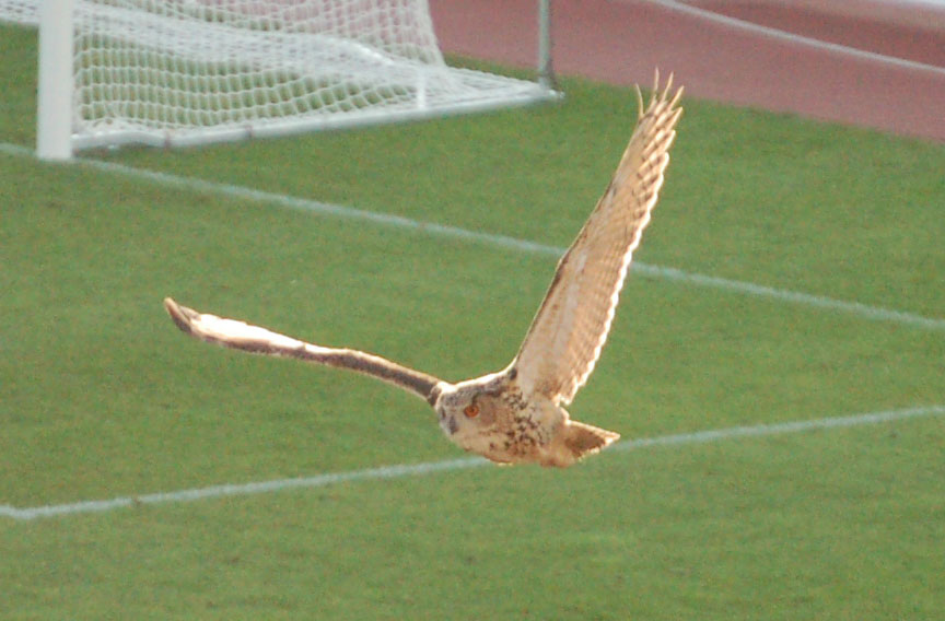 Eurasian Eagle-Owl (Bubo bubo) at Helsinki Olympic Stadium. A wild bird (ref)